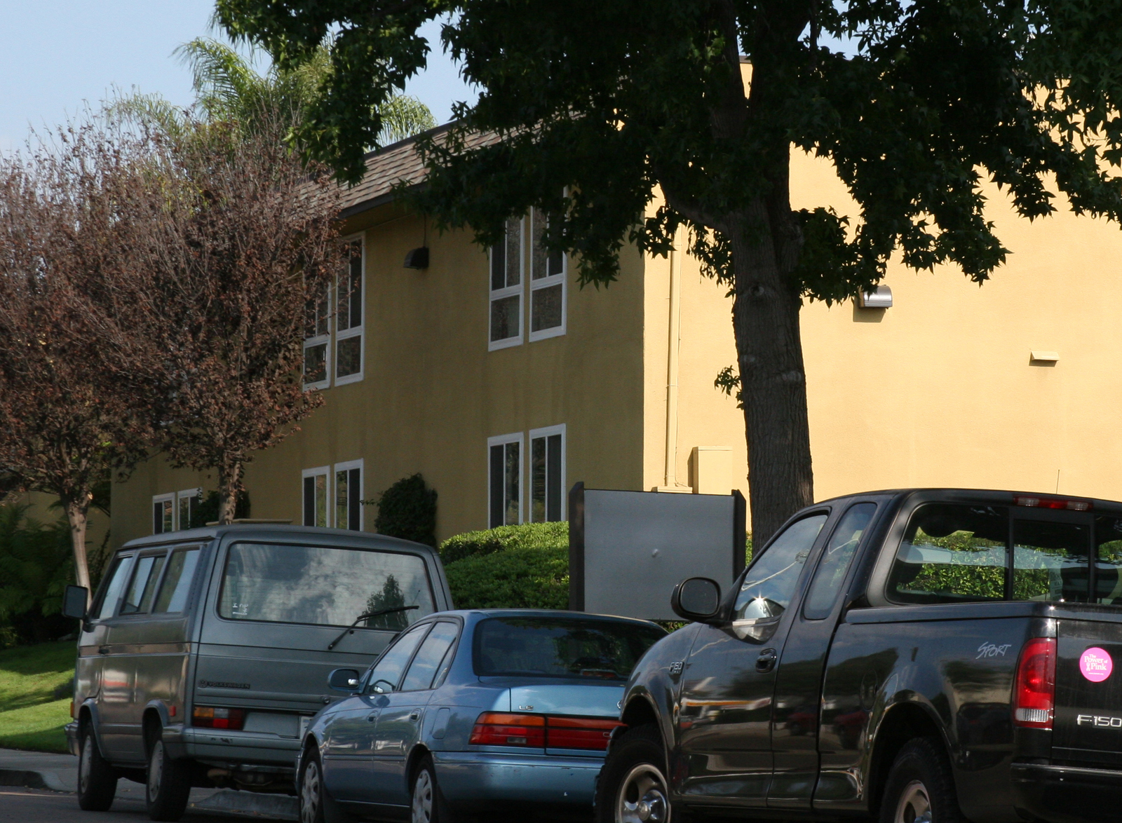 Parkwood Apartments complex in the Clairemont Mesa section of San Diego. This is where 9/11 hijackers Nawaf al-Hazmi and Khalid al-Mihdhar lived when the came to the United States, from February to the end of May 2000.